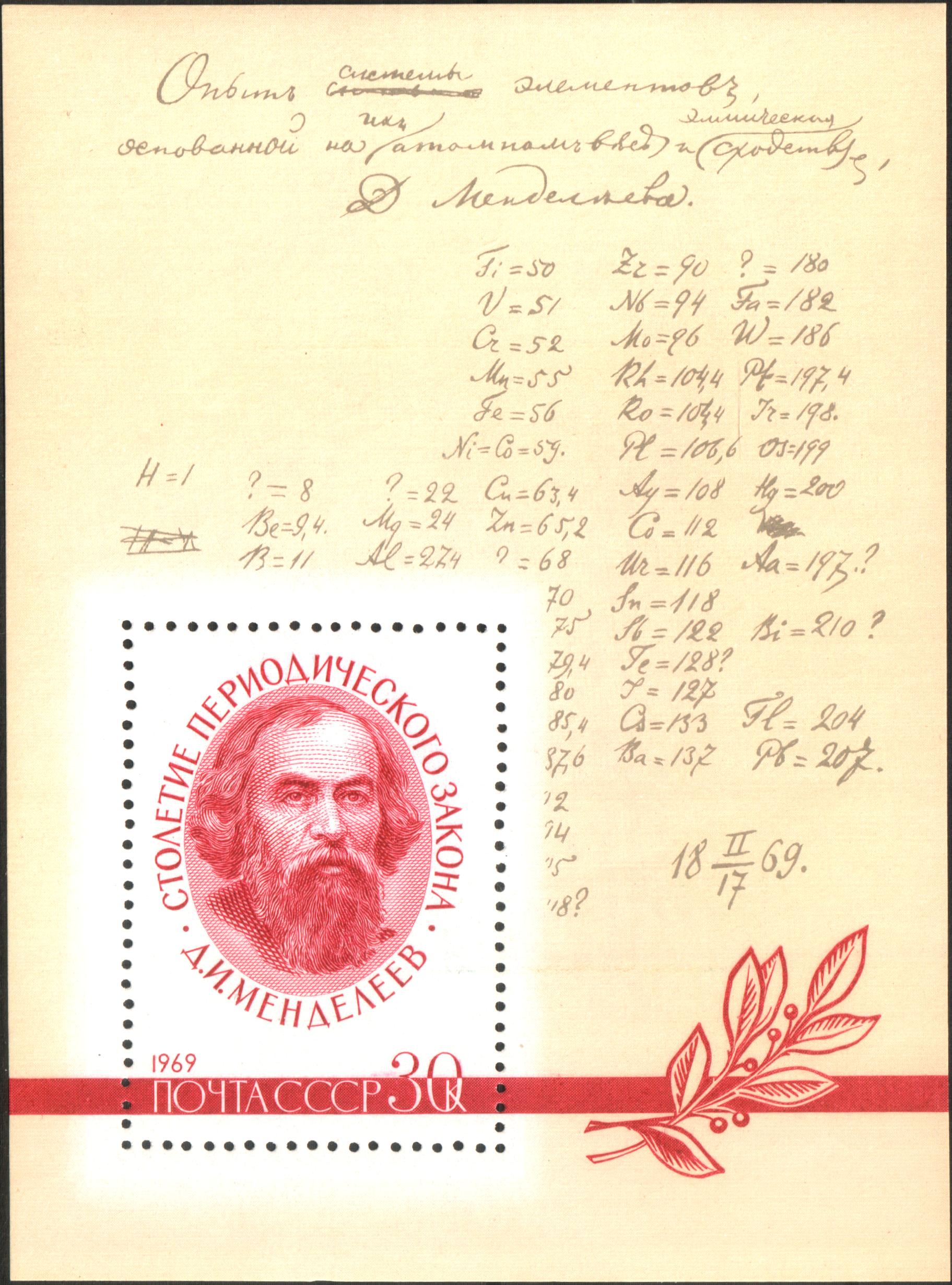 USSR sheet of 1: Mendeleev and Periodic Law. Series: Centenary of the Periodic Law (Classification of Chemacel Elements), Formulated by Dimitri Mendeleev (1834–1907)